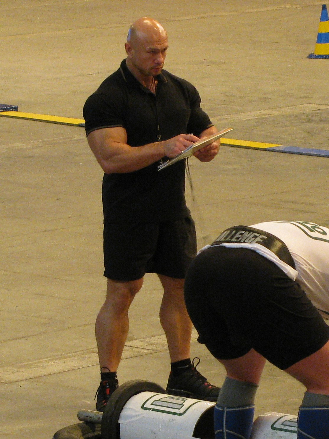 Andrzej Maszewski - a bodybuilder from Poland, also strength athletes competitions referee.